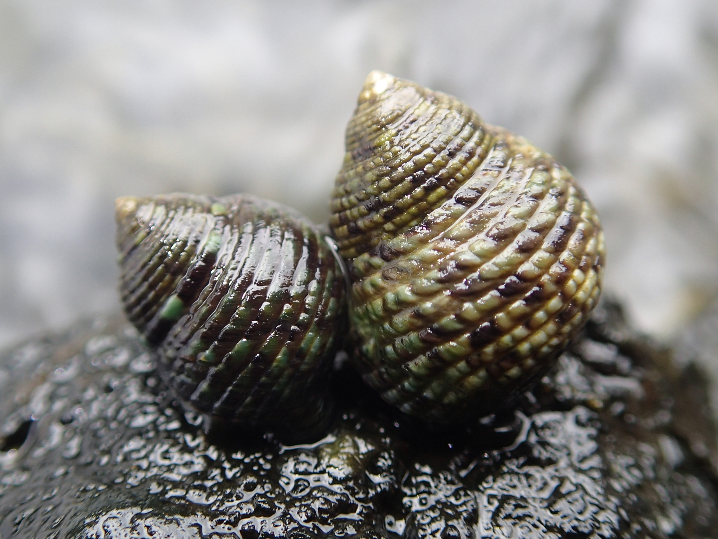 Monodonta sp. (Monodonta australis auct. non Lamarck, 1822) from Chichijima Island, the Ogasawara Islands, Tokyo, Japan.